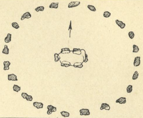 reconstructed plan of the megalithic tomb Tangeln KS 154